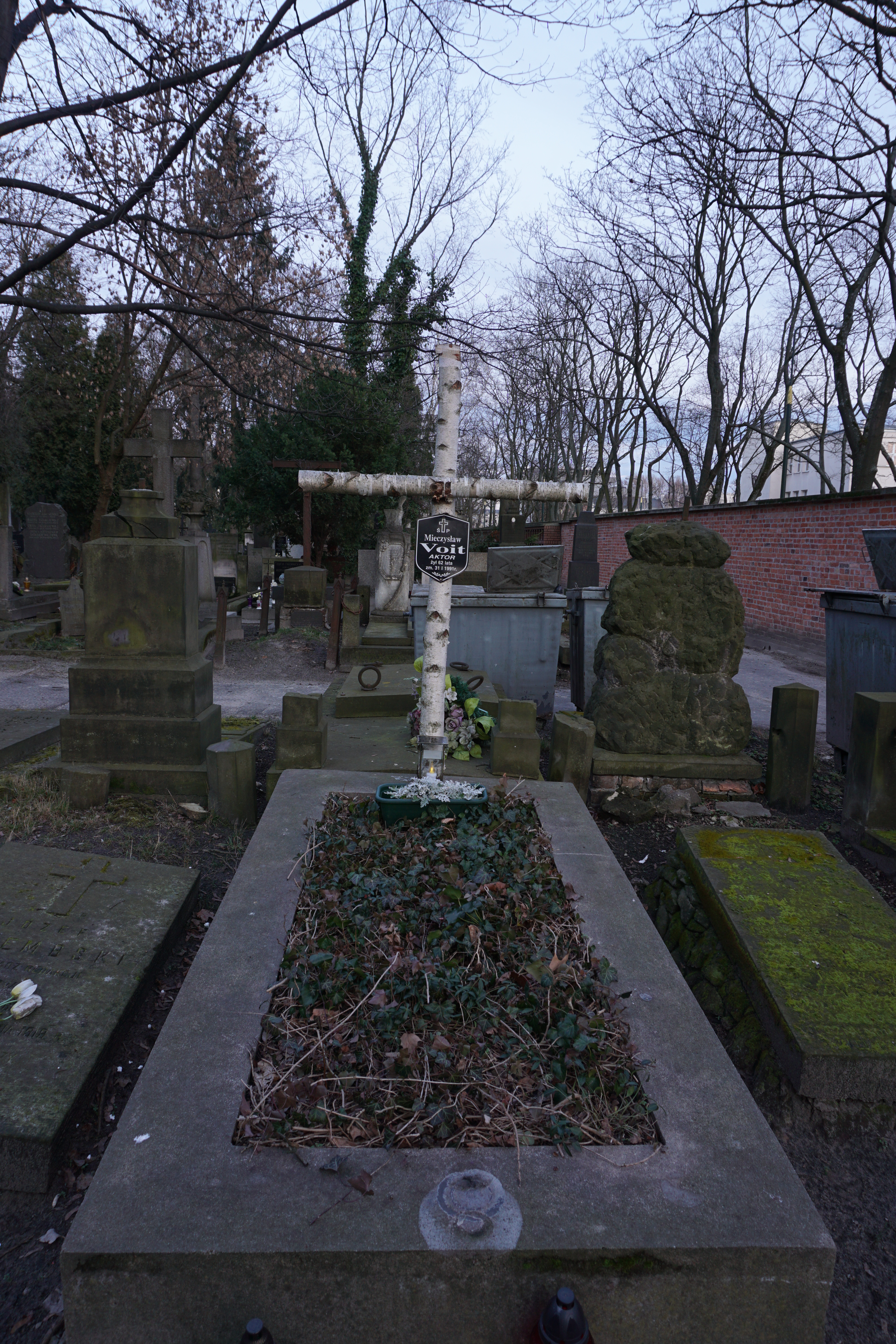 The grave of Mieczysław Voit at the Powązki Cemetery (section 172, row 2, grave 24)